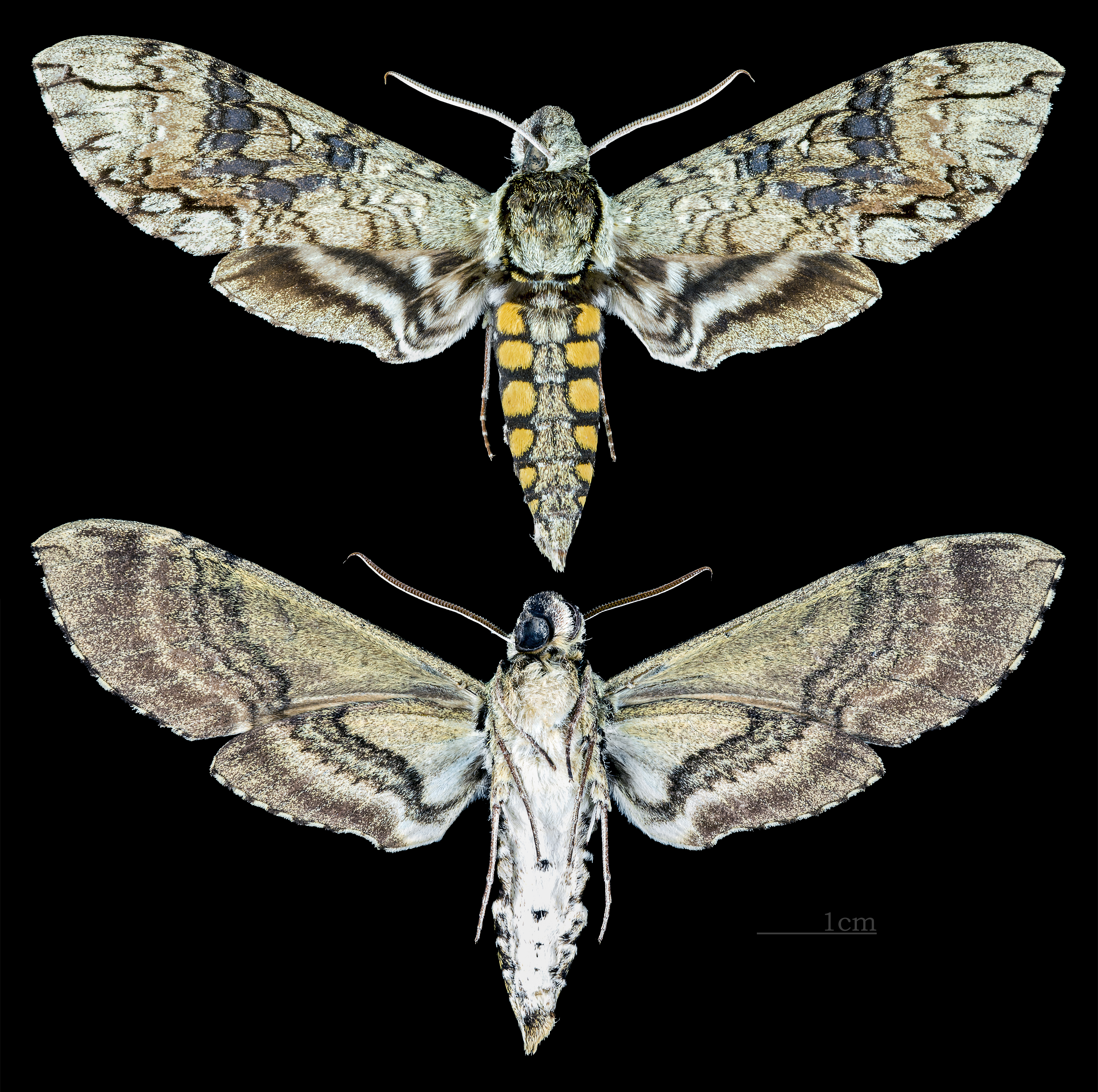 Manduca boliviana - Two views of same specimen